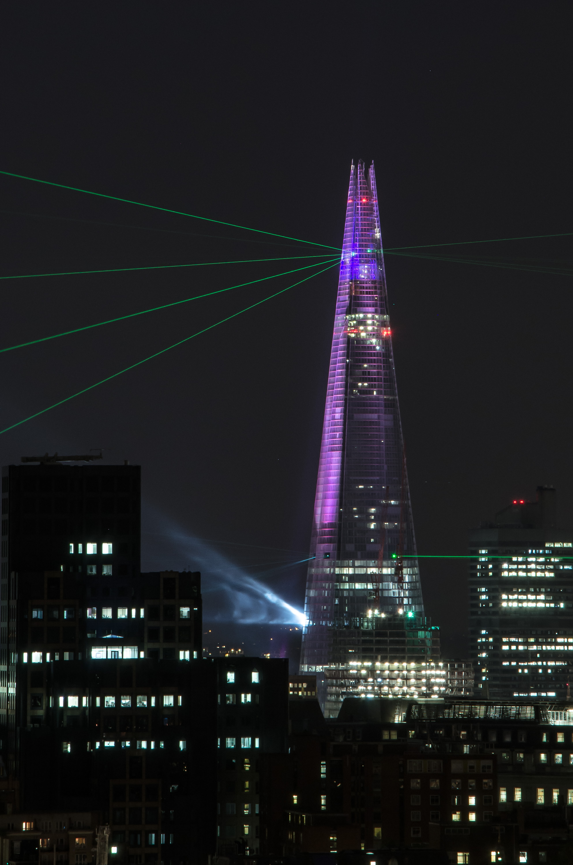 The Shard during its opening laser light show